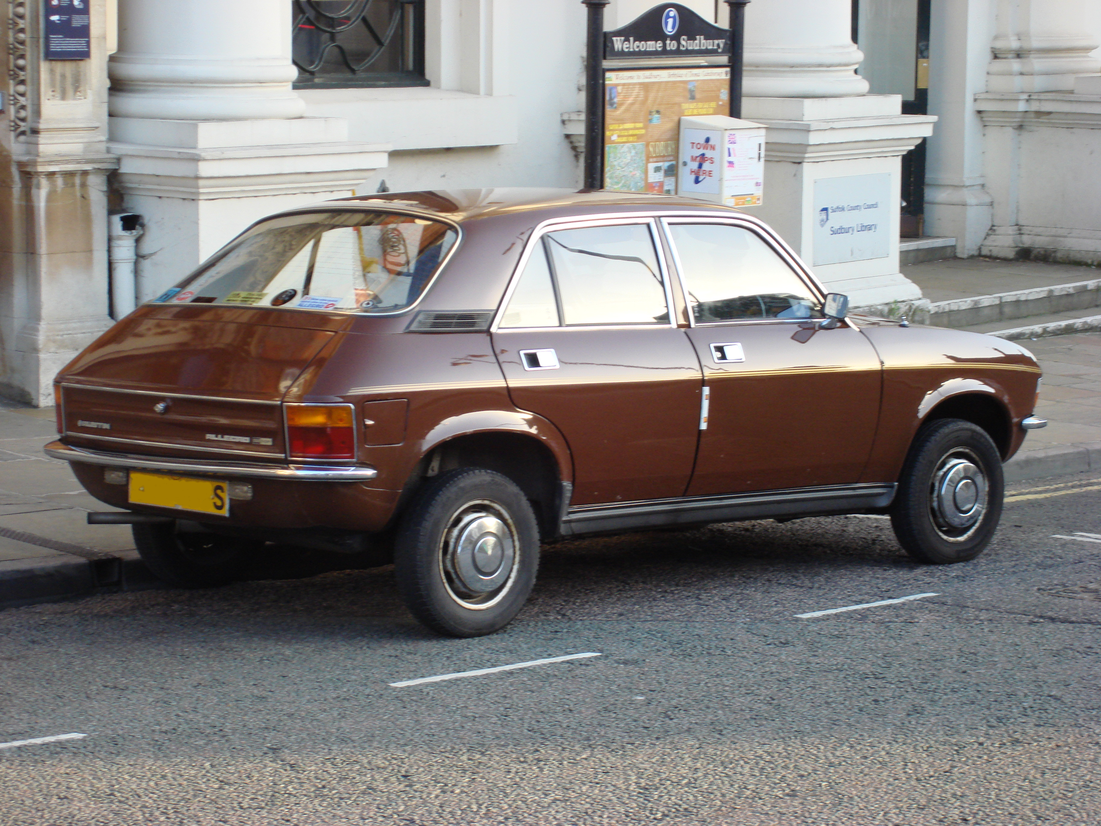 Austin Allegro in Sudbury, Suffolk